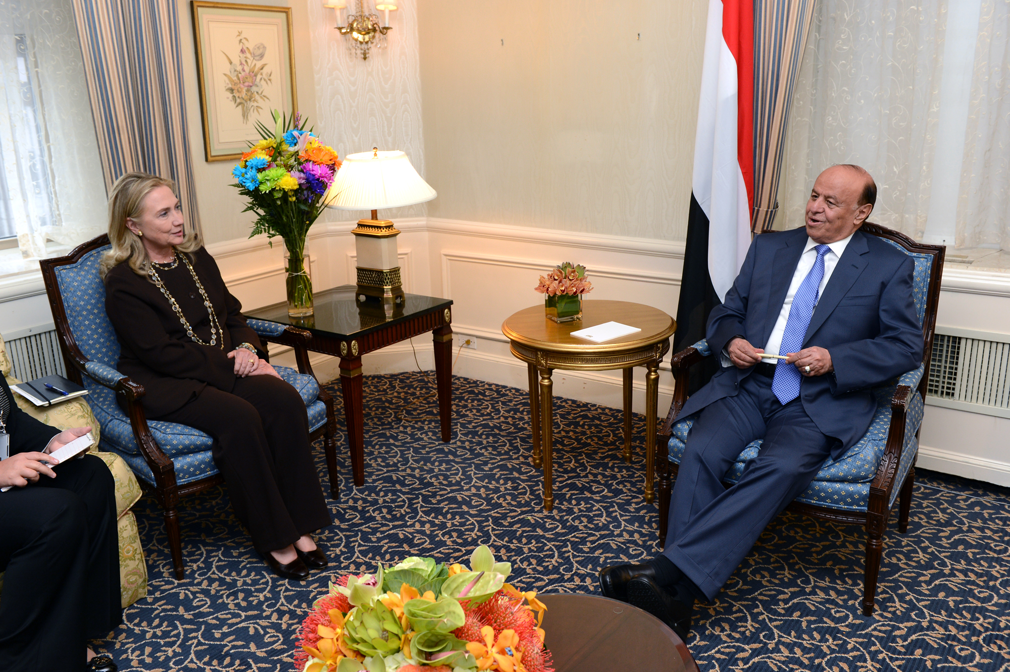 U.S. Secretary of State Hillary Rodham Clinton meets with Yemeni President Abdo Rabo Mansour Hadi in New York, New York on September 25, 2012. [State Department photo/ Public Domain]